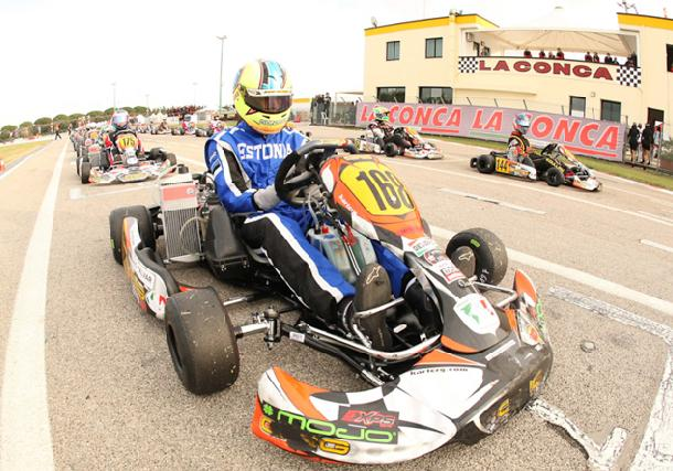 kart